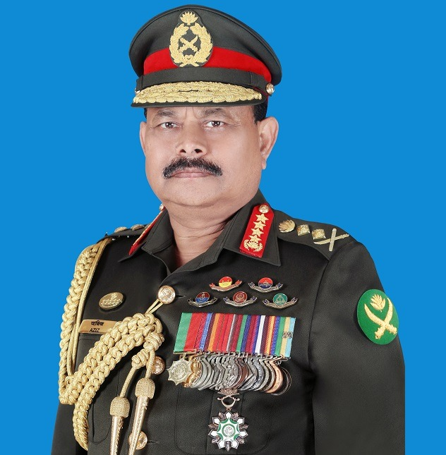 Bangladesh Army Chief General Aziz Ahmed SBP, BSP, BGBM, PBGM, BGBMS, psc, G